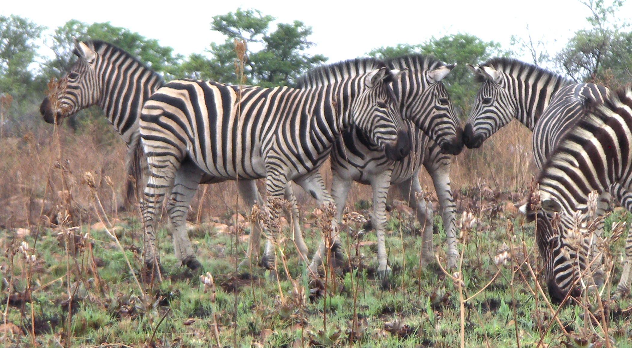 Common zebra (Equus quagga) at Roodeplaat Nature Reserve, Gauteng, South Africa